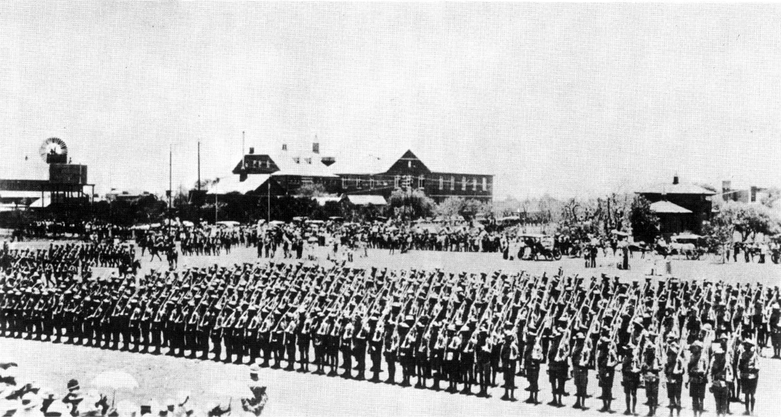 Men of the 1st Rhodesia Regiment parade in Bulawayo on their way to deployment in South Africa, late October 1914